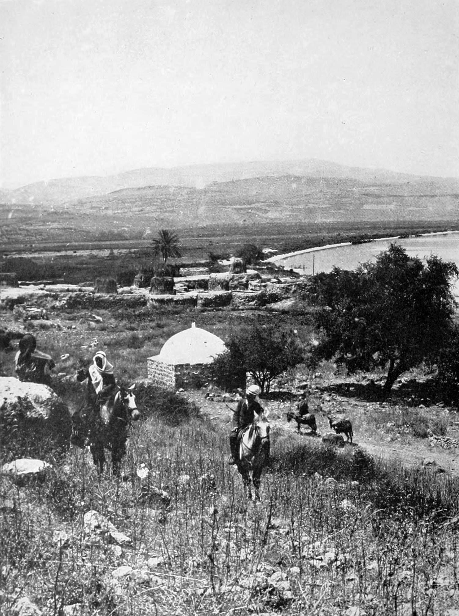 Migdal, over looking the sea of Galilee . 1909